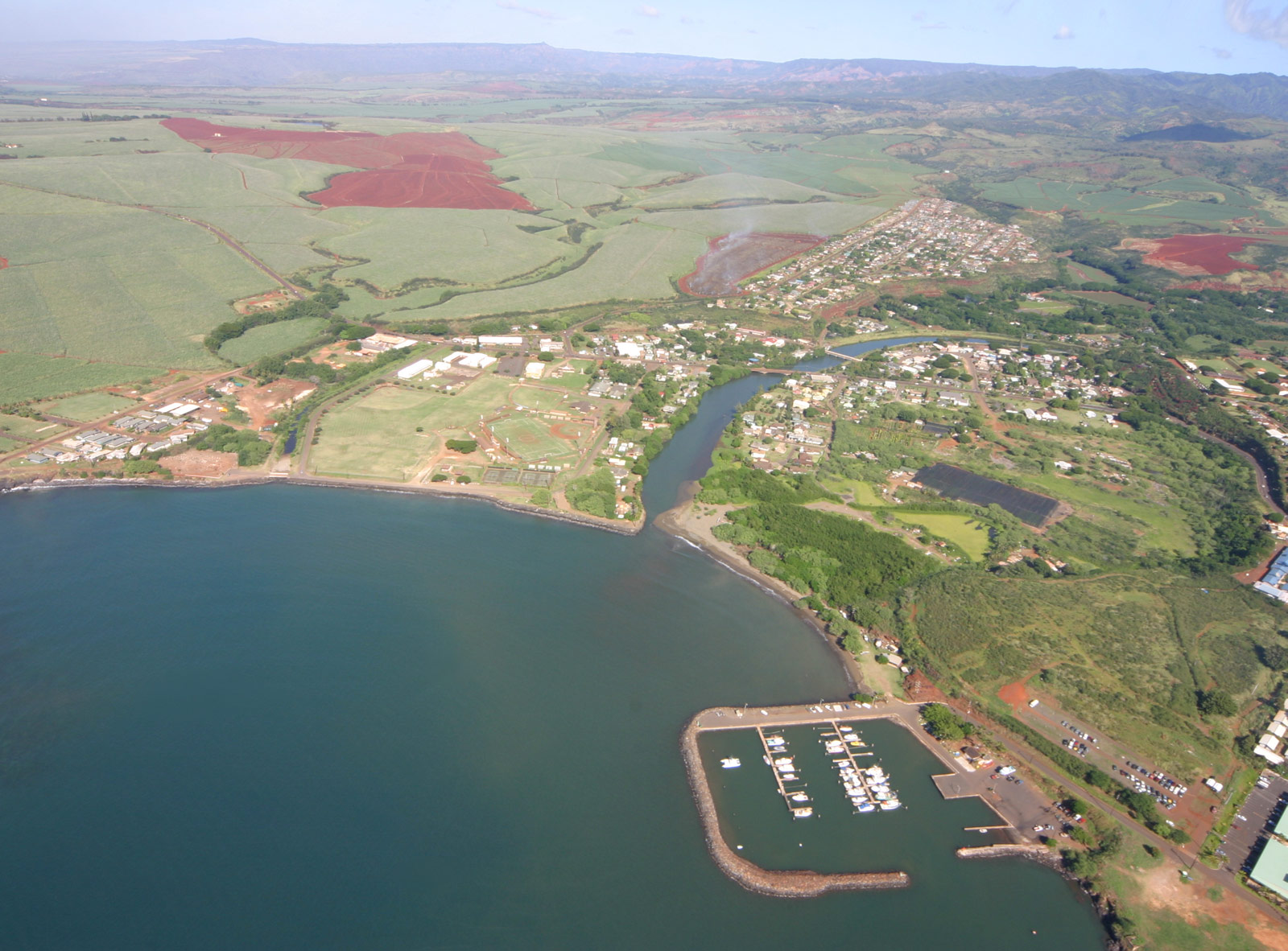 aerial view of Hanapepe, Island of Kauai, Hawaii